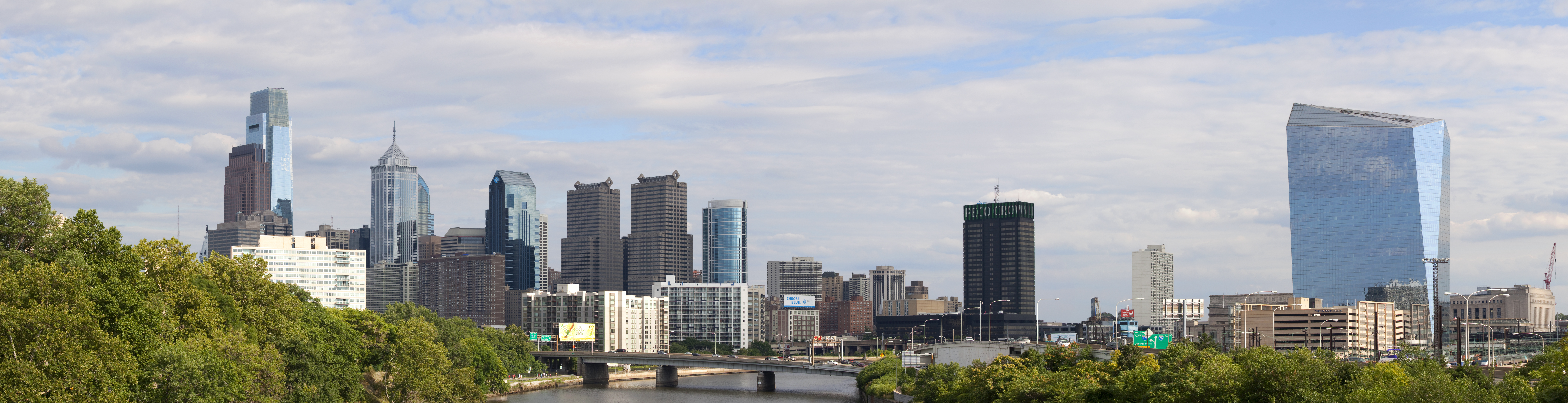 The skyline of Pennsylvania's largest city Philadelphia. Visible are Center City with the Comcast Center on the left bank of the Schuylkill River and the 30th Street Station with the Cira Centre on the right. The resolution of the original photograph is 14000*3594.